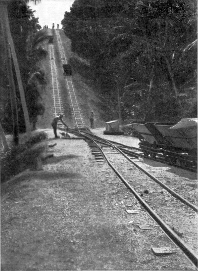 Railway of the phosphate mine, Nauru